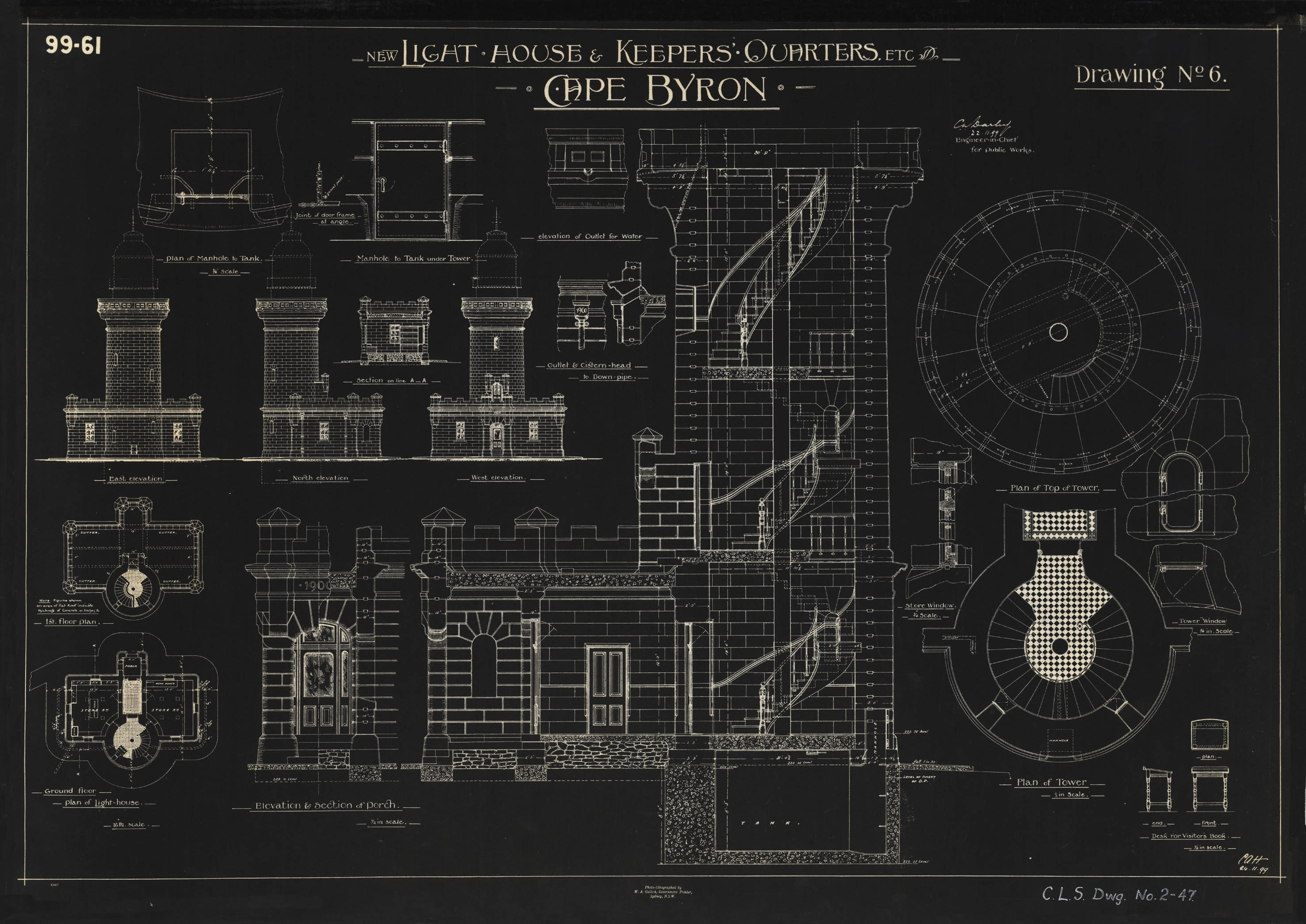 Cape Byron Light - tower with annexe elevation and details, 1899